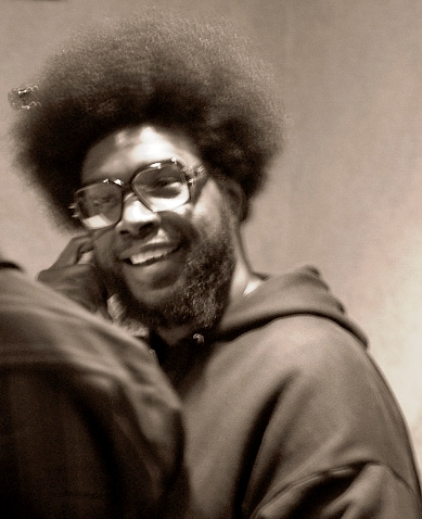 Derivative of Image:Questlove2.jpg